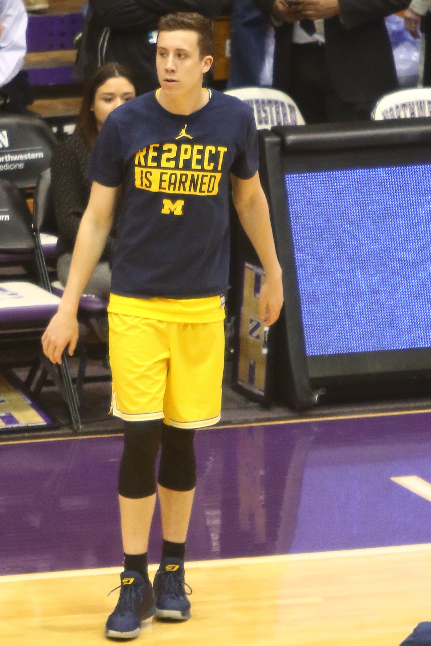 Duncan Robinson (basketball) playing for the w:2016–17 Michigan Wolverines men's basketball team